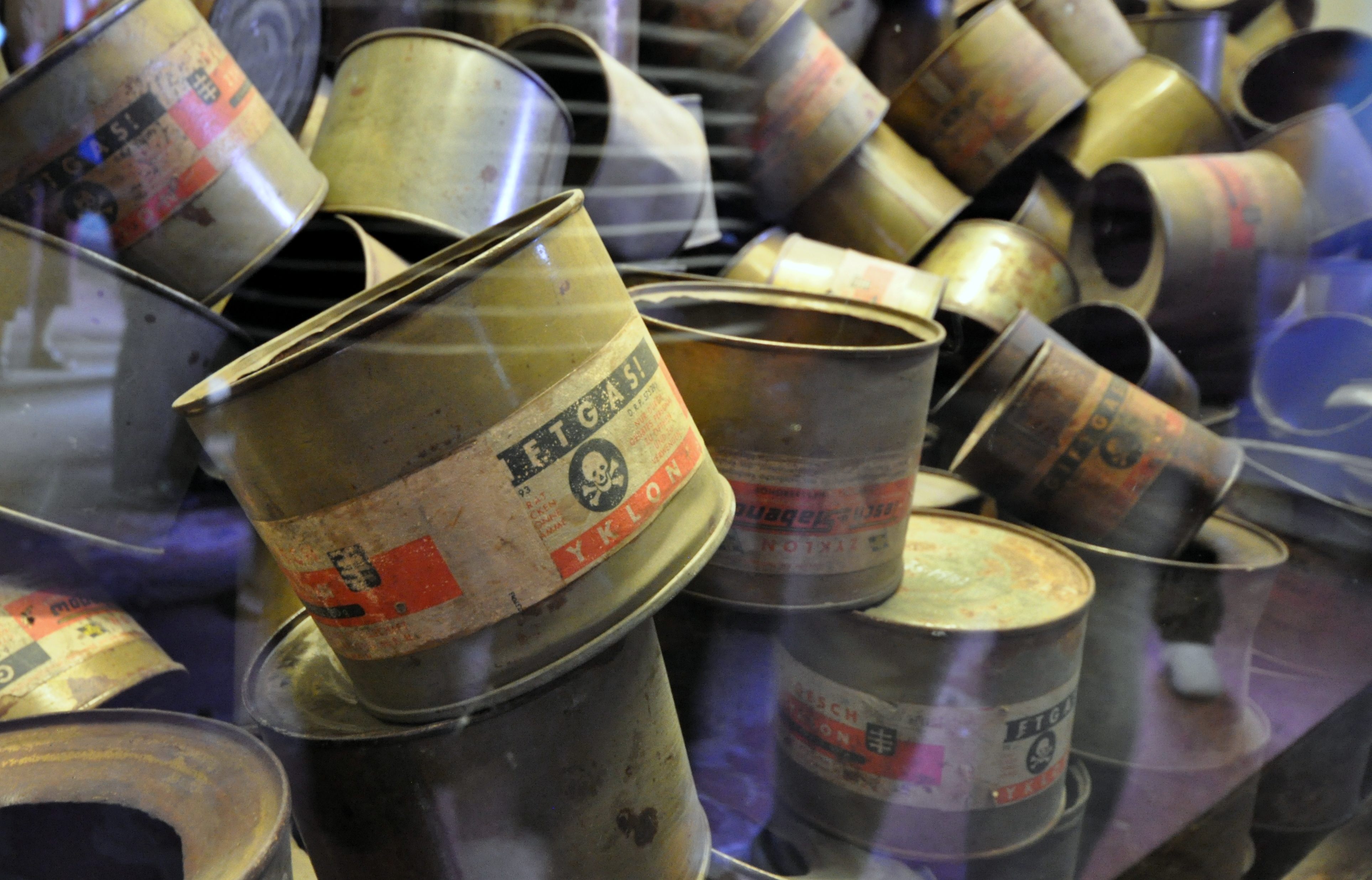 Used Zyklon B canisters in Auschwitz museum